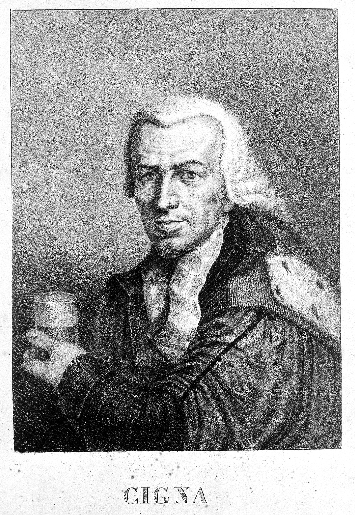 Portrait of Giovanni Francesco. Iconographic Collections Keywords: Giovanni Francesco Cigna